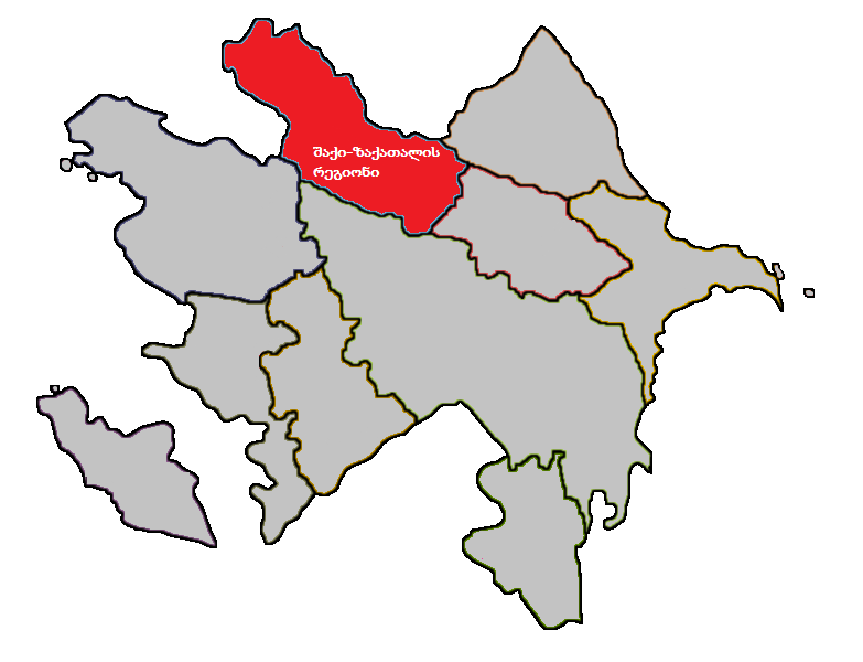 Shaki-Zaqatala region.